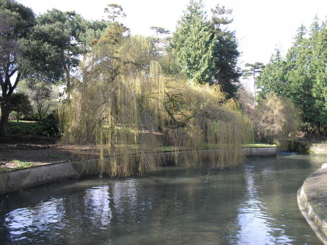 Weeping willow as captured from the bridge outside the Botanic Gardens, Glasnevin, Dublin. Taken by myself one Saturday morning in March 2006 and released into the public domain.